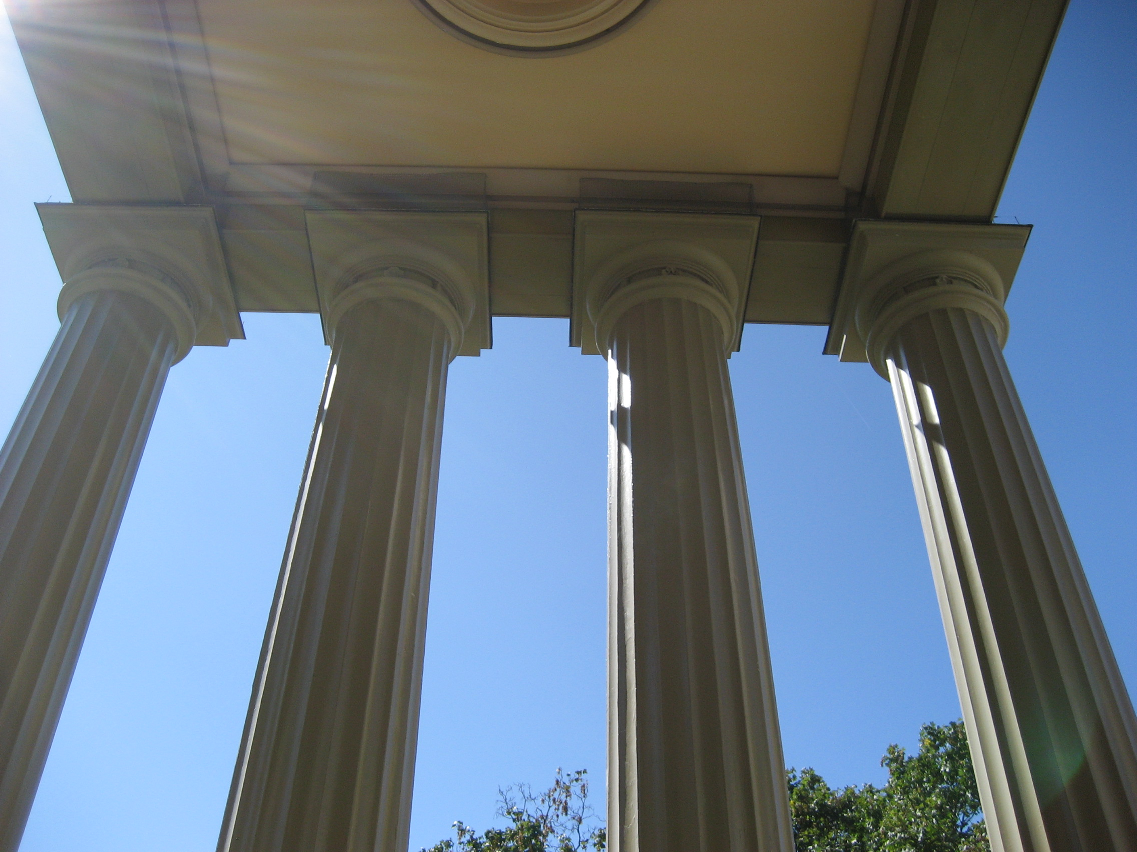 Dundurn Castle, Hamilton, Canada.